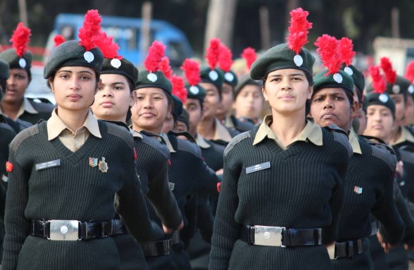 Cadets of the National Cadet Corps during Republic Day Preparations in Dehradun, 2015